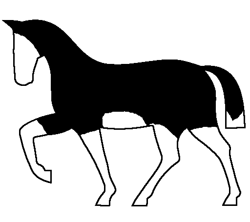 Horse colour pattern icon.